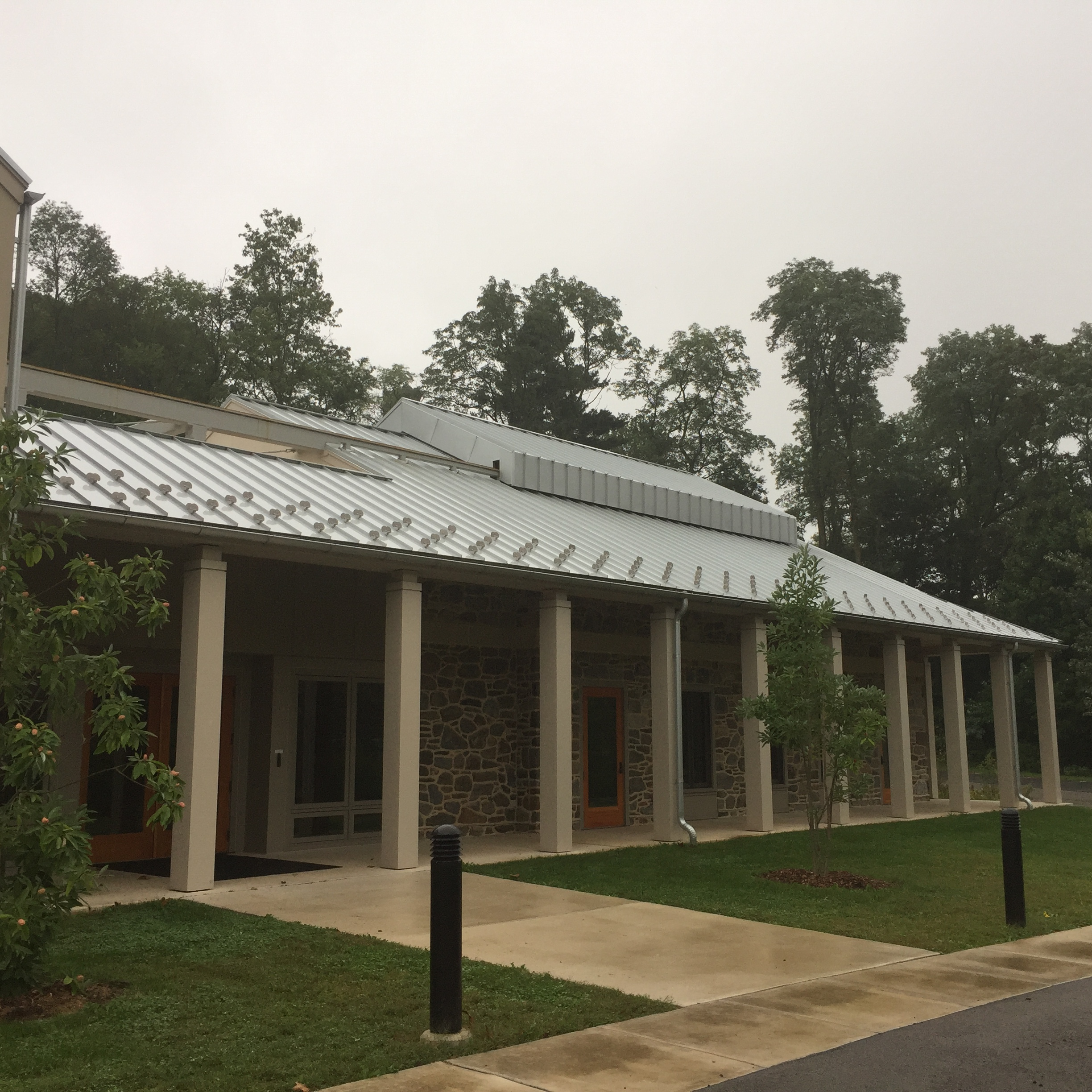 Closeup of front entrance of Chestnut Hill Friends Meetinghouse, 20 East Mermaid Lane, in Chestnut Hill section of Philadelphia, PA. Note the retractable roof covering the James Turrell skyspace.